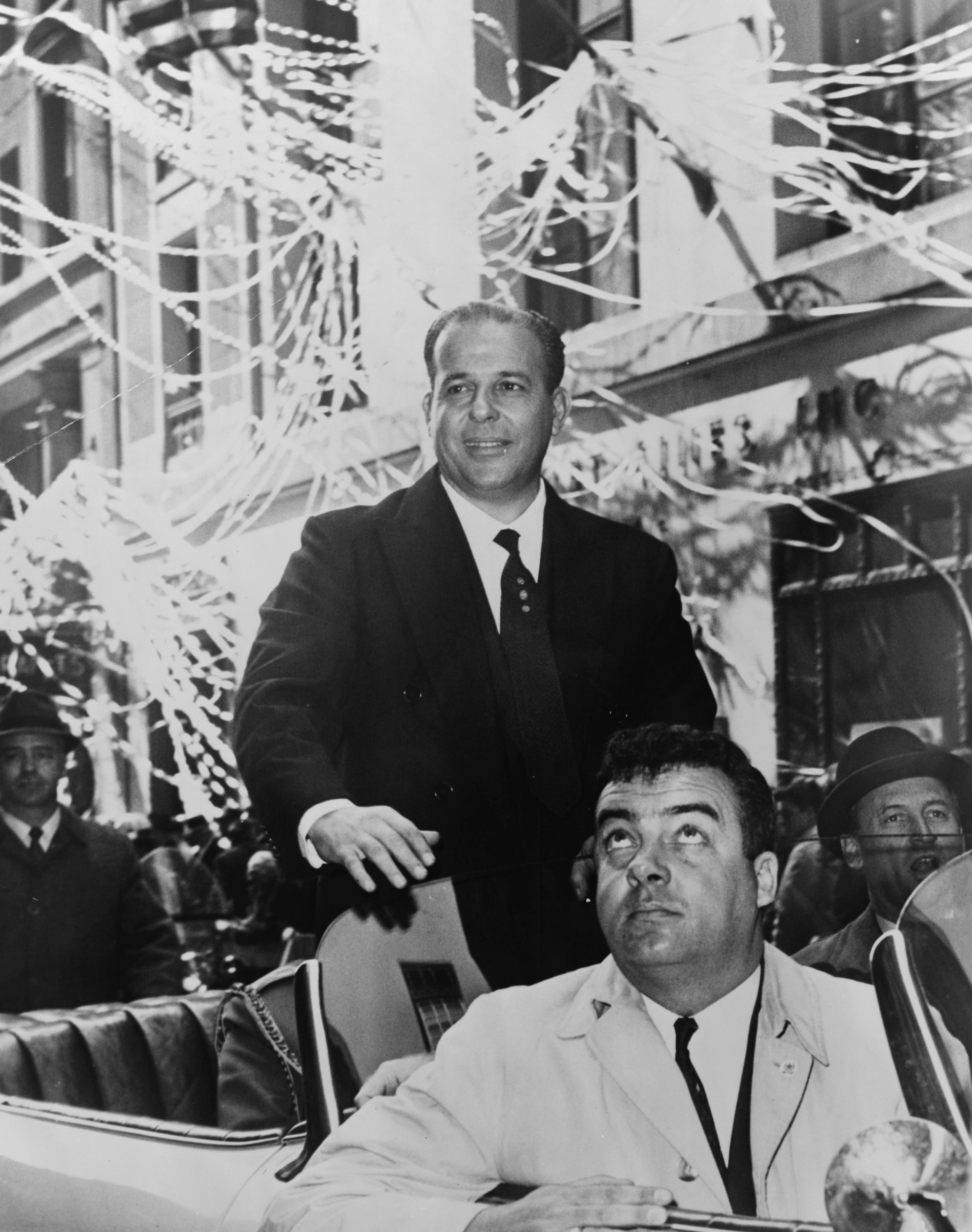 João Goulart standing in back of car, during ticker tape parade, New York City.